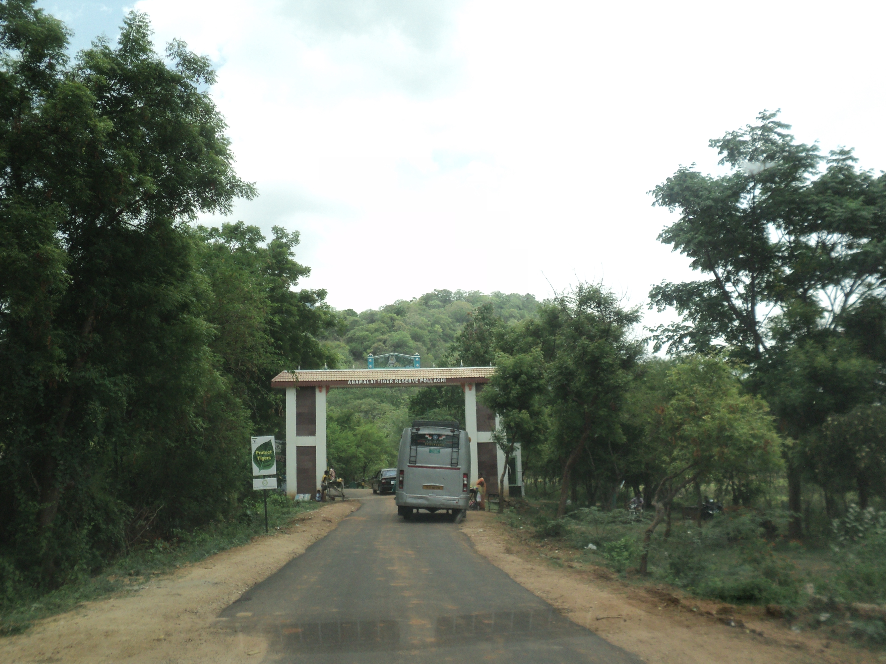 Anamalai Tiger Reserve